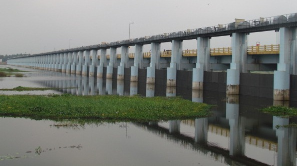 a view of chamravattam bridge from its shutter side